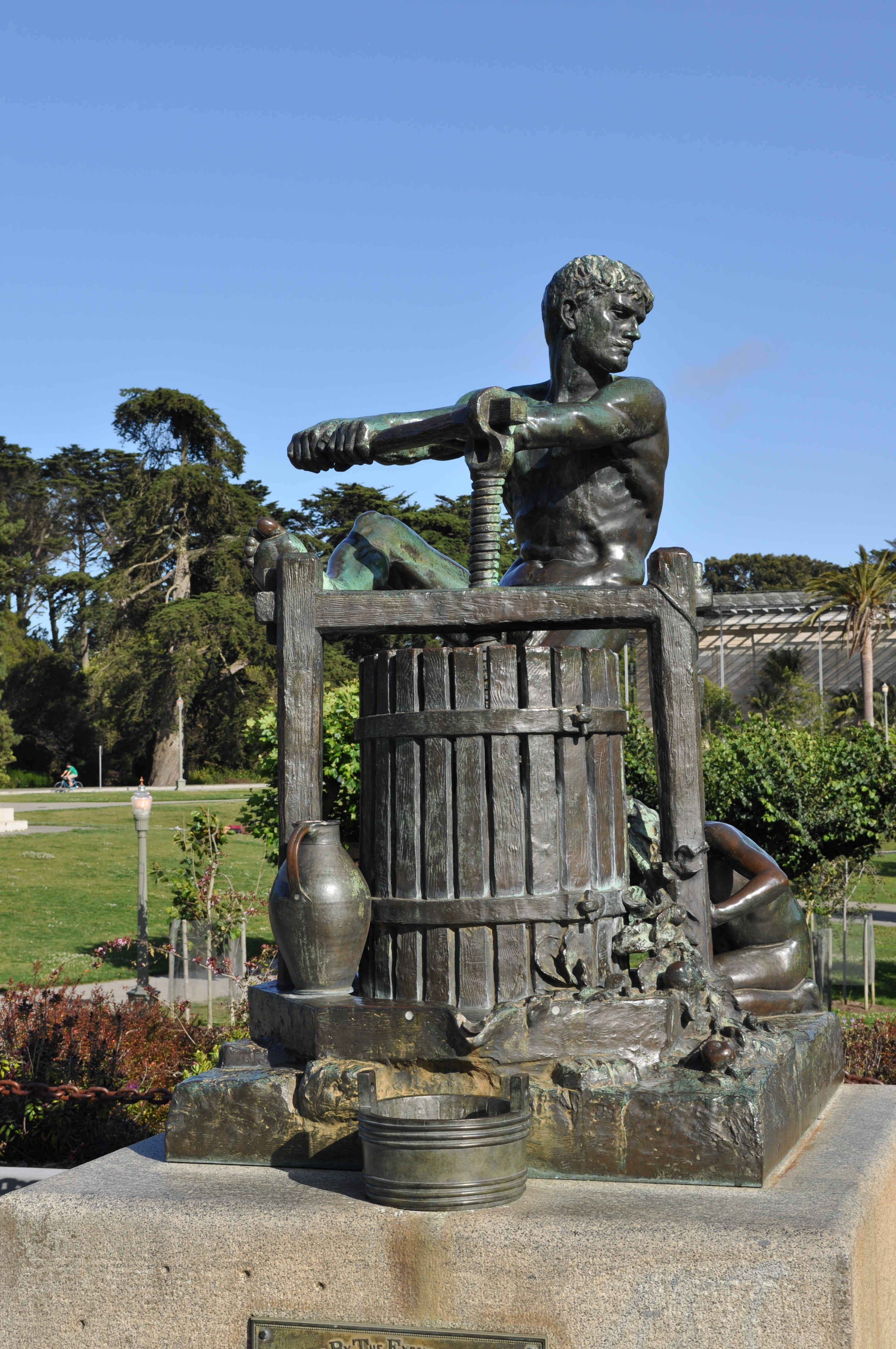 Apple Press Monument (a relic of the Mid-Winter Fair, 1894, still in the same spot), Music Concourse, Golden Gate Park, San Francisco, California, USA.